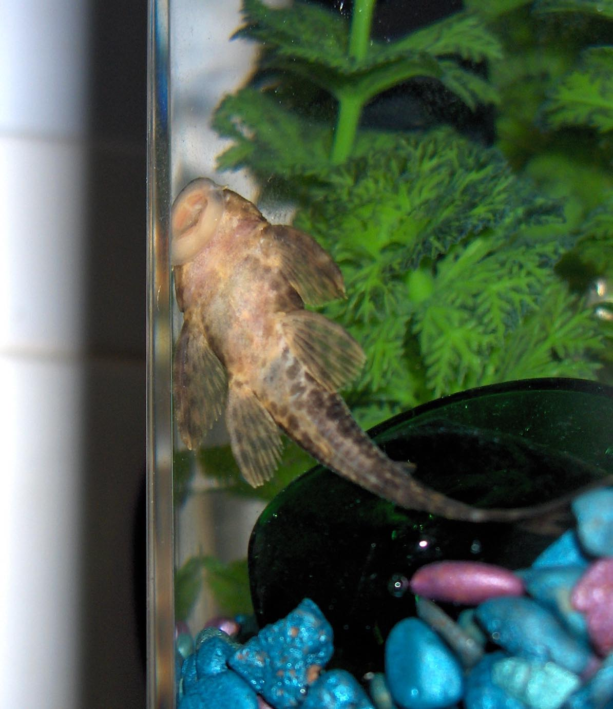 A young Pleco attached to the side of the aquarium. THIS IS NOT H. plecostomus.